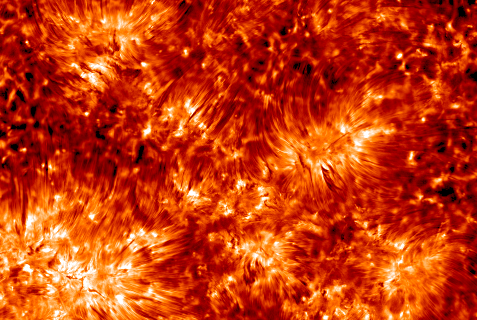 Here we see the Sun's mid-atmosphere, the Chromosphere, face on. These observations are targeting a region of moderate magnetic activity. The inner blue-wing of the Ca II K 393.4 nm line is imaged with a 13 nanometer bandpass using the CHROMIS double Fabry–Pérot instrument at the Swedish 1-meter Solar Telescope on the 25th of May, 2017. The darker regions feature an hydrodynamic web-like pattern known as "reverse granulation" with a contribution from propagating bright shock-fronts. In between these areas, clusters of bright points can be seen where bright arching fibrils seem to be anchored on. These fibrils are elongated and very slender when imaged in this wavelength, as slender as 0.1 arcsec or less than 75 km wide in this image. This is how finely we can observe the chromosphere of the Sun as of early 2020. Observations such as these help us understand the most complex region of the solar atmosphere and how mass and energy are transported between the surface of the Sun and the multi-million degree Corona. Vasco Henriques and Ainar Drews (ITA, University of Oslo)